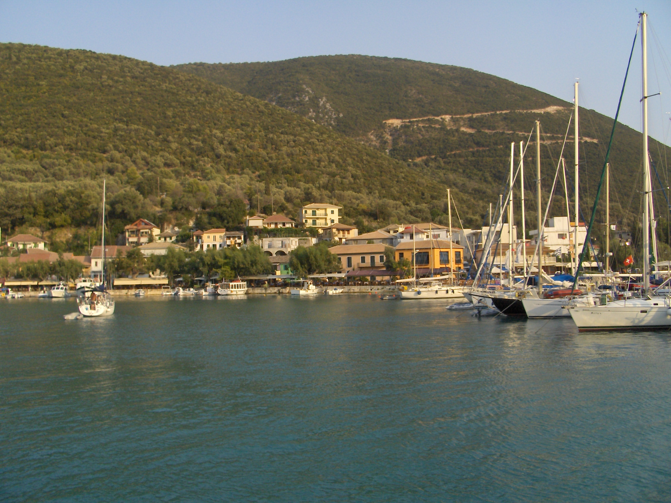 View of Vasiliki, Lefkada, Greece.